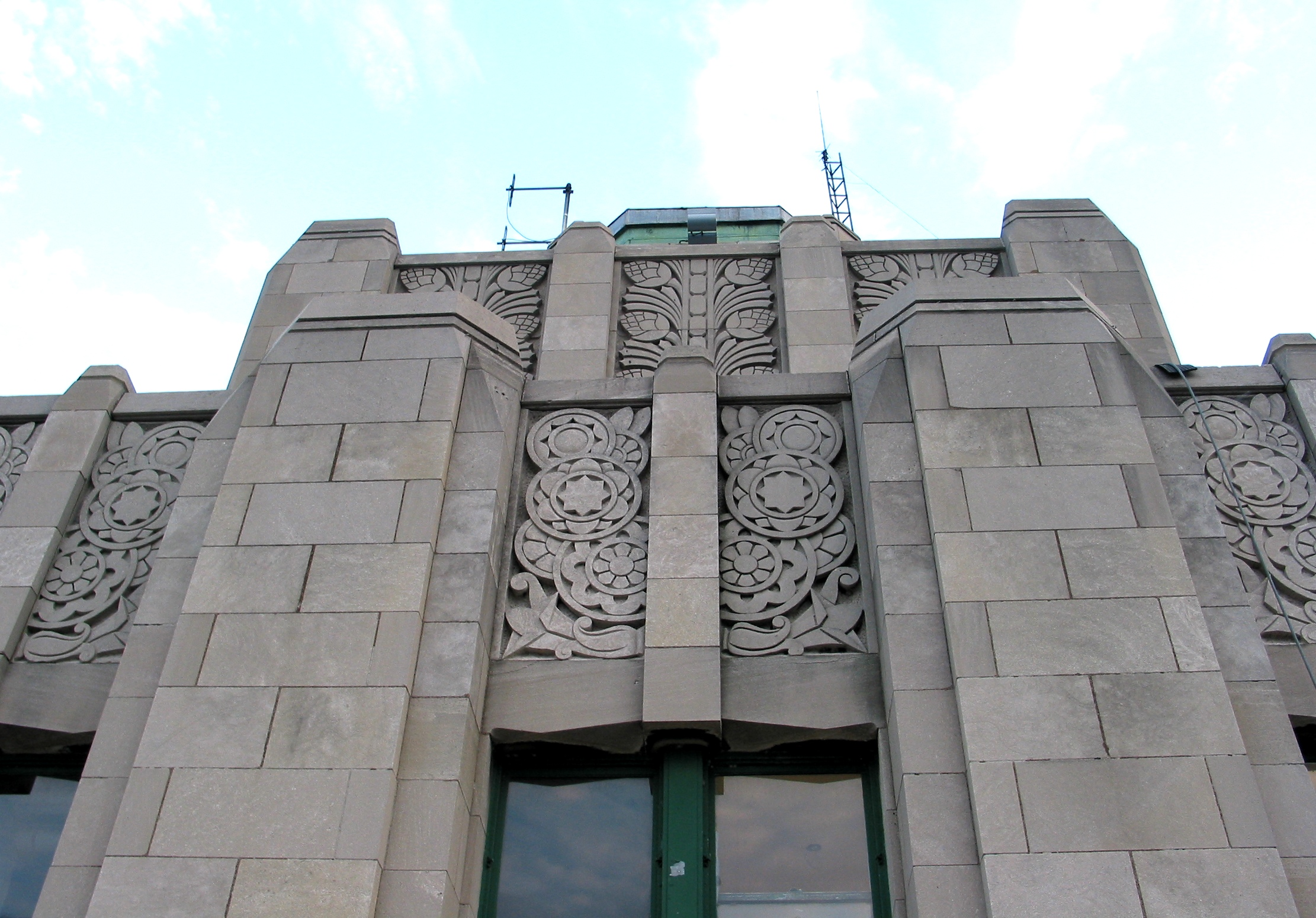 Montreal: Aldred Building (1931)